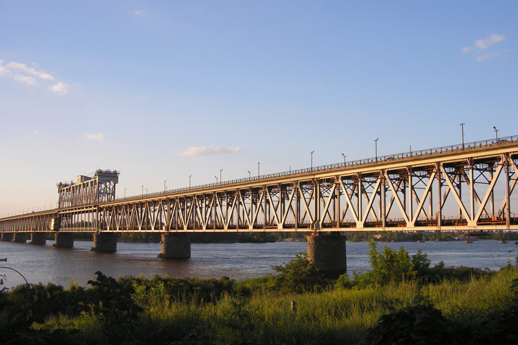 The Kryukov Bridge over the Dnieper River, in Kremenchuk, Ukraine. This view is from the southwest.